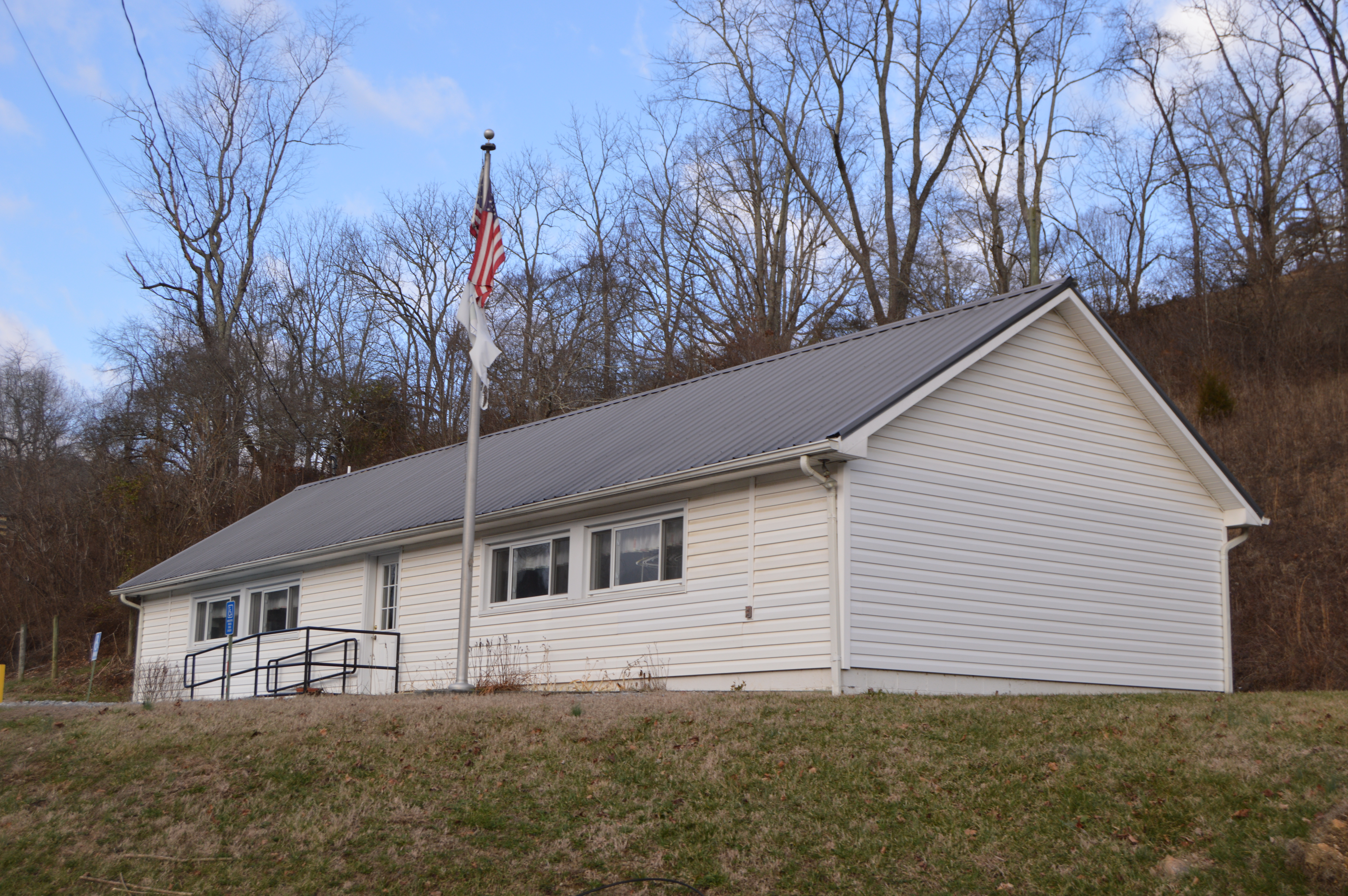 Front and eastern end of the Clinchburg Community Center, located on Old Saltworks Road at Clinchburg in Washington County, Virginia, United States.